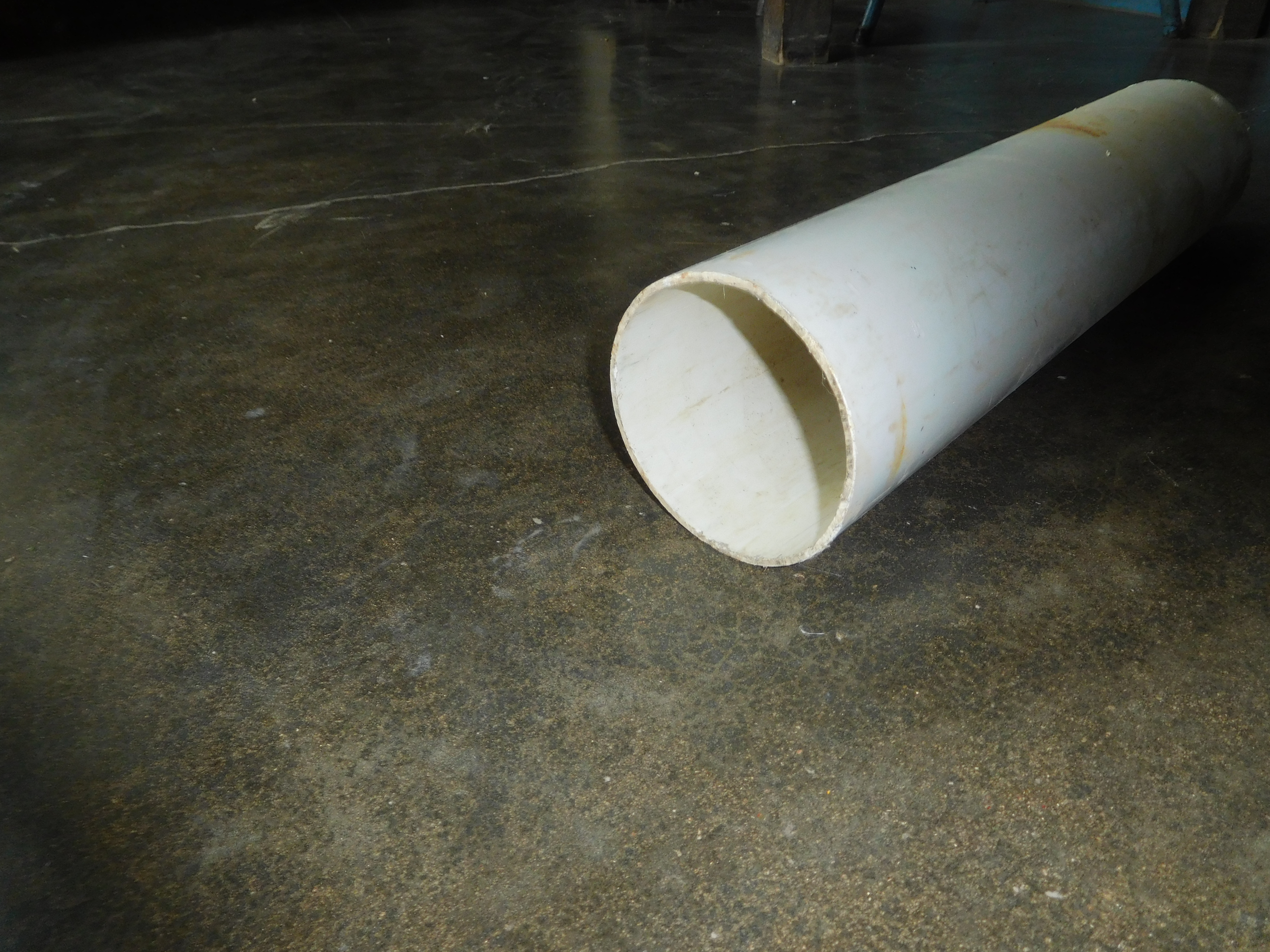 Pipe is a hollow cylinder